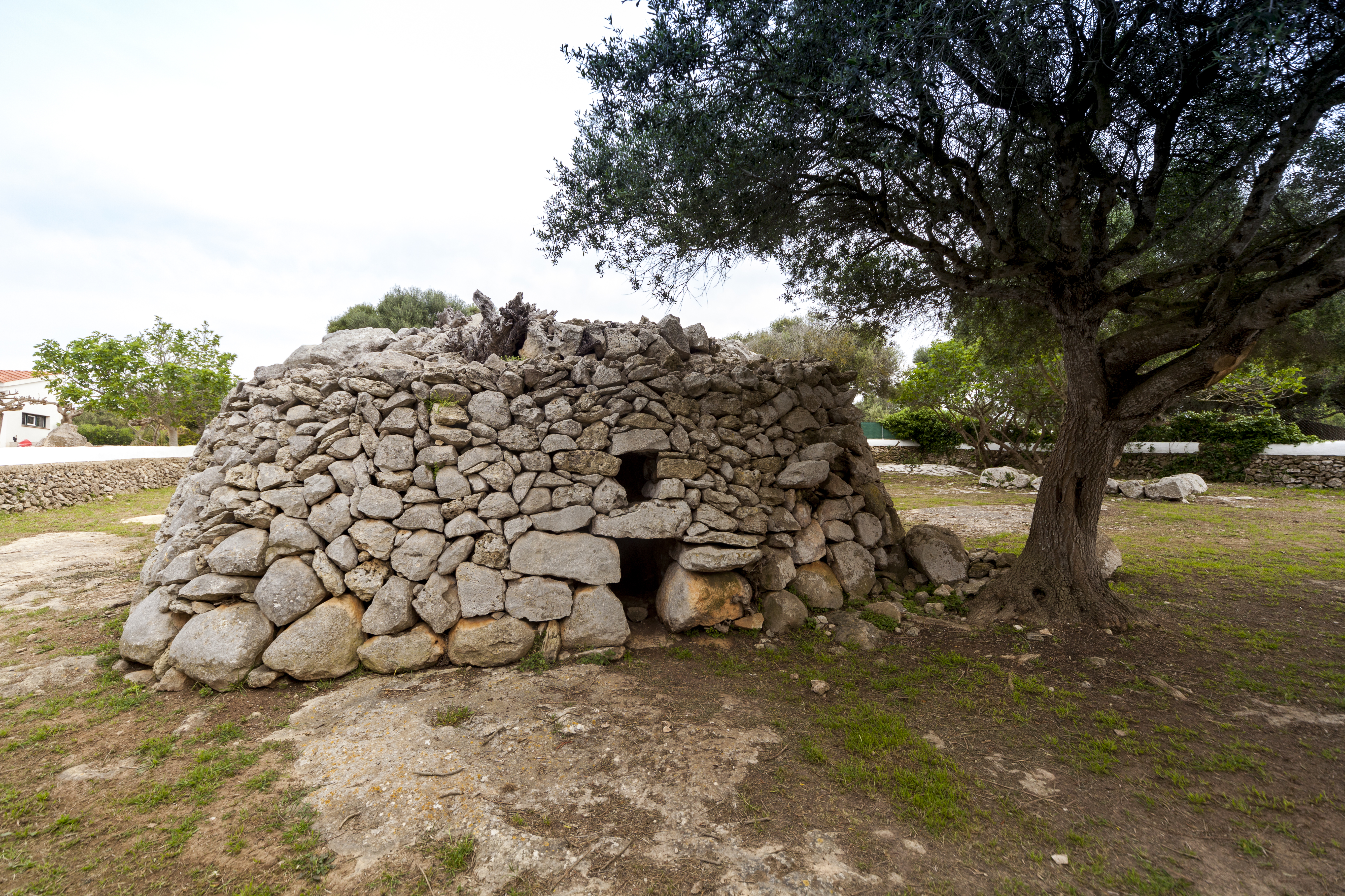 Biniac Oriental naveta's façade